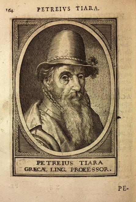 Petrus Tiara (1514-1586) Dutch Humanist, college president, mayor, poet, philologist and physician. From: Illustrium Hollandiae Westfrisiae ordinum alma academia Leidensis Dedication portraits and portraits of Leiden professors, along with 4 scenes of university, library, anatomical room & hortus